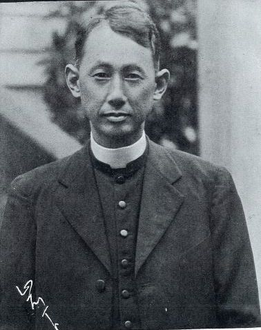 "Koe" Issue of July, 1941 No.785